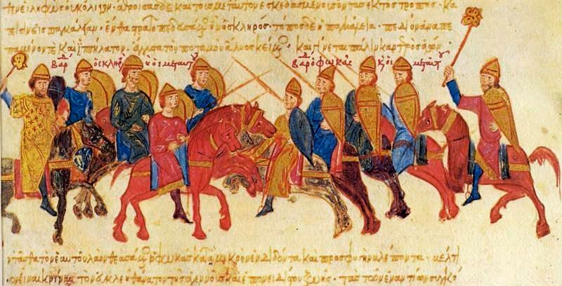 Clash of the armies of the rebel Byzantine general Bardas Skleros and Bardas Phokas in 978/979, from the Madrid Skylitzes manuscript.